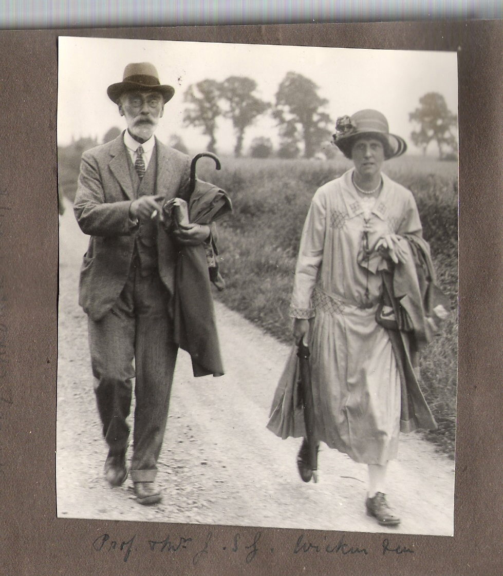 Professor John Stanley Gardiner and his wife Edith walking in Wicken Fen, Cambridge.